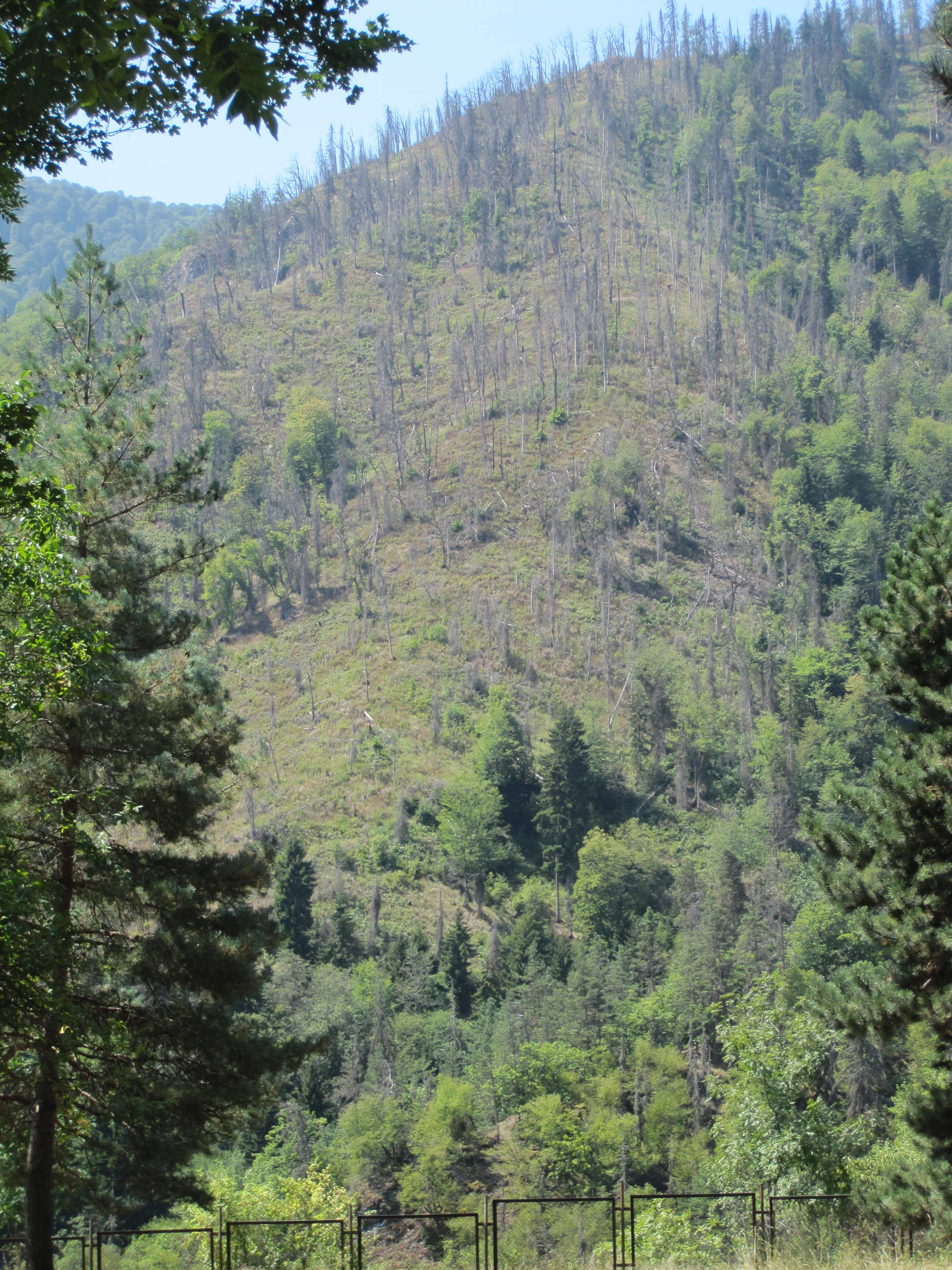 Borjomi National Park, Georgia. Consequences of the 2008 Borjomi wildfire induced by the Russian air force strike.